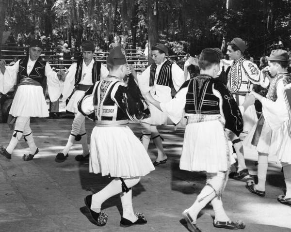 Boy Scouts from Tarpon Springs, Florida, dancing in Greek Fustanellas at a folk festival in White Springs, Florida